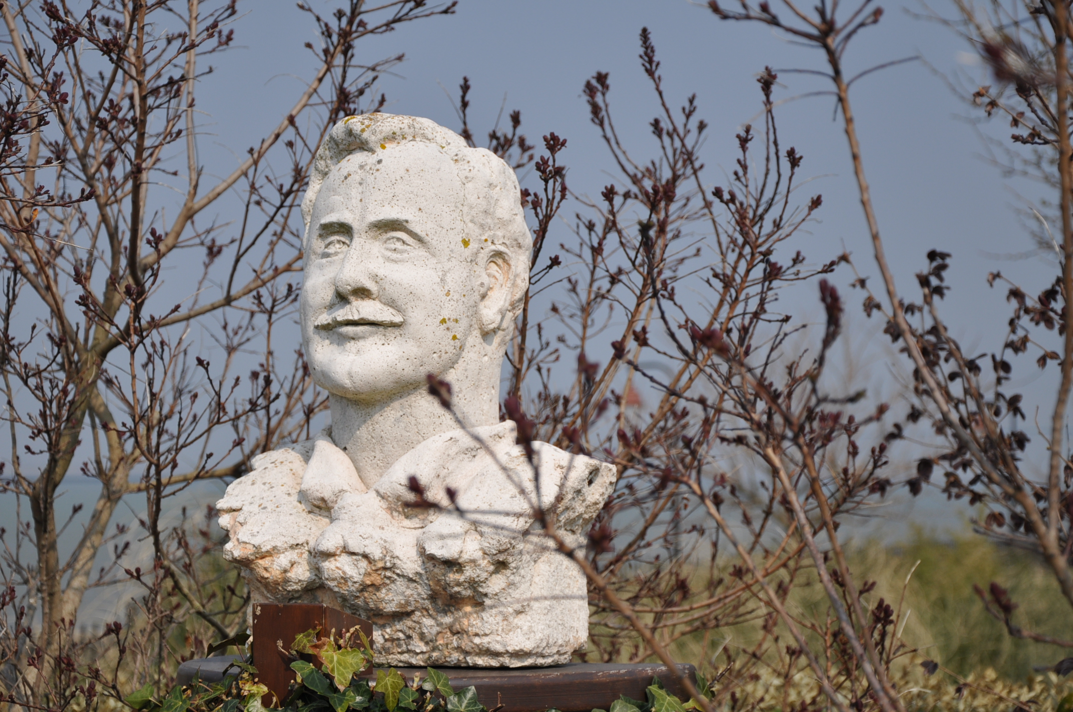 Bust of Alphonse Allais (Honfleur, Normandy, France)